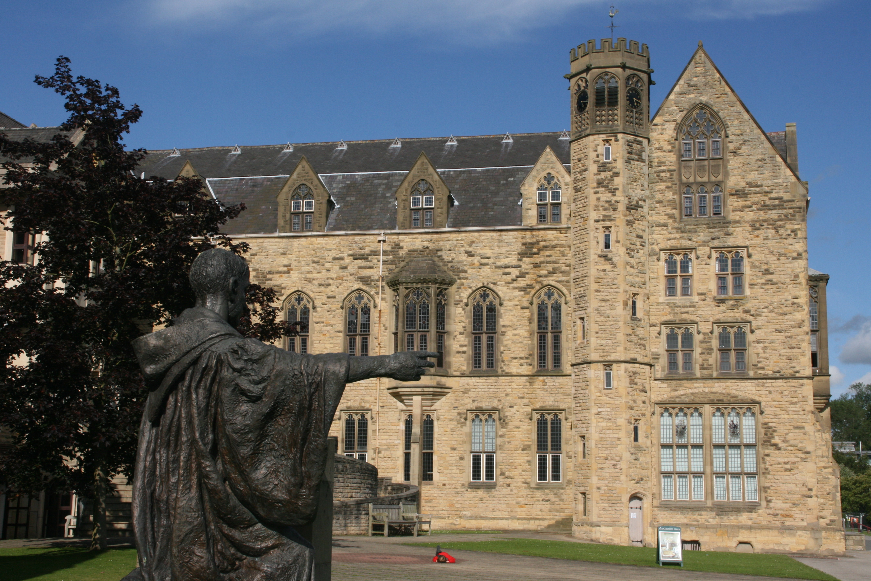 Courtyard